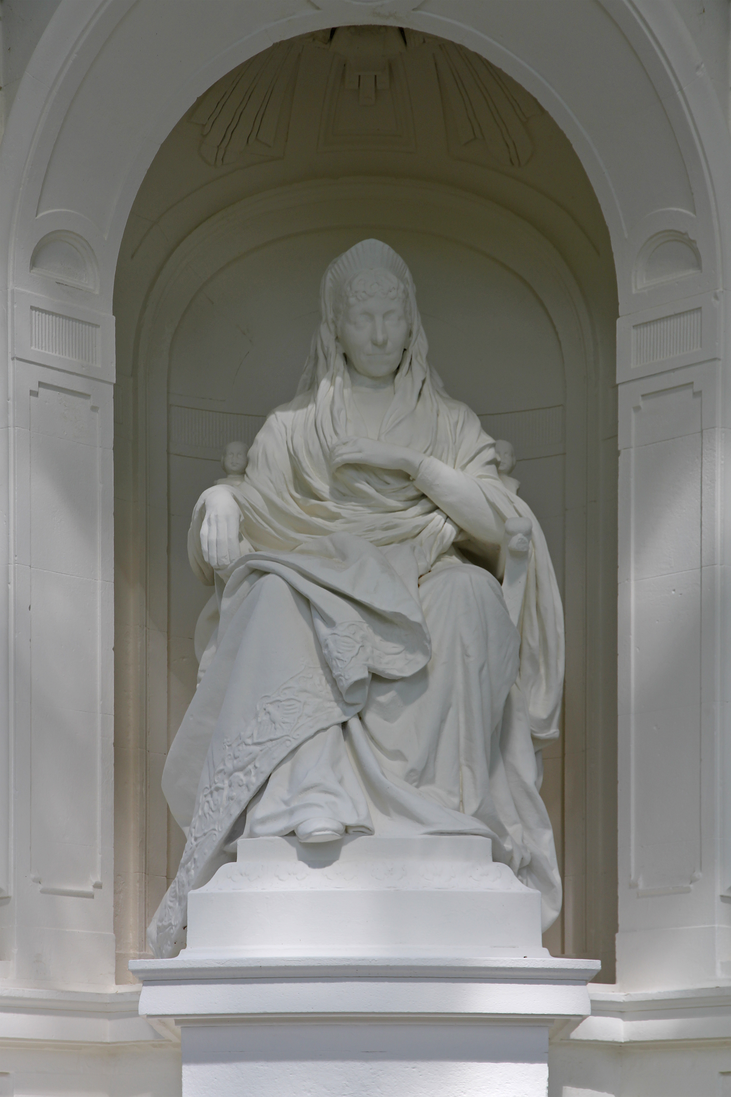 Augusta-Monument in the rhine park of Koblenz